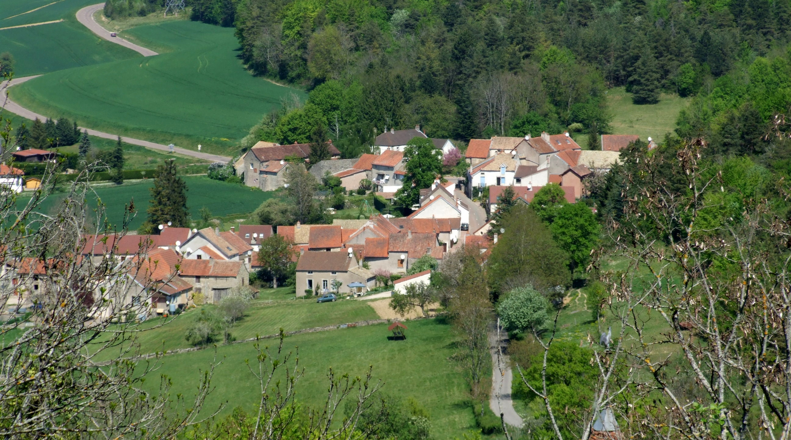 Burgundy, FRANCE